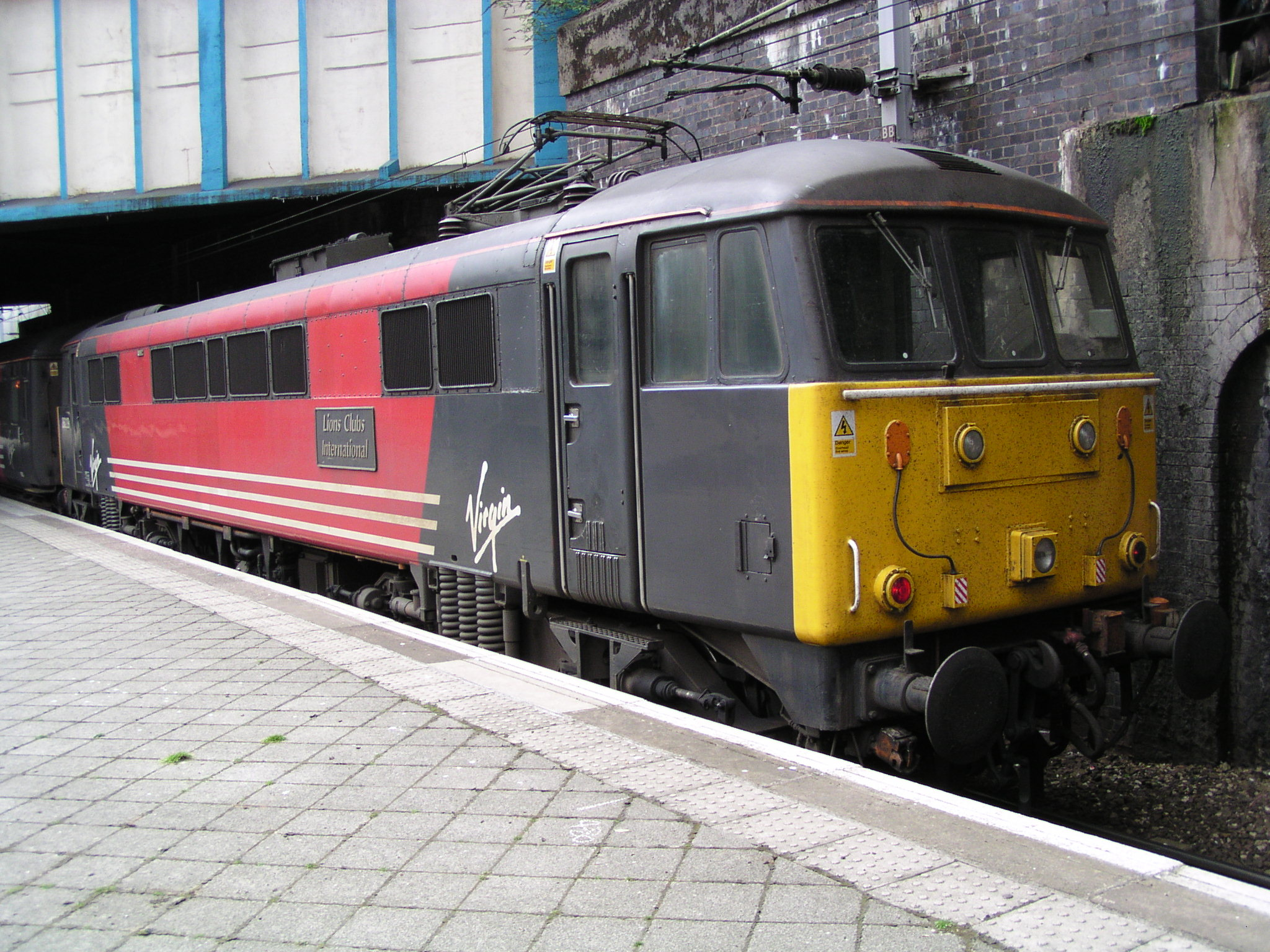 British Rail Class 86, no. 86229 'Lions Club International', at Birmingham New Street on 5th June 2003, on a service to London Euston. This locomotive was one of the final three Class 86 locomotives operated by Virgin Trains, and was withdrawn from service in September 2003. It has since been bought for further use by FM Rail.